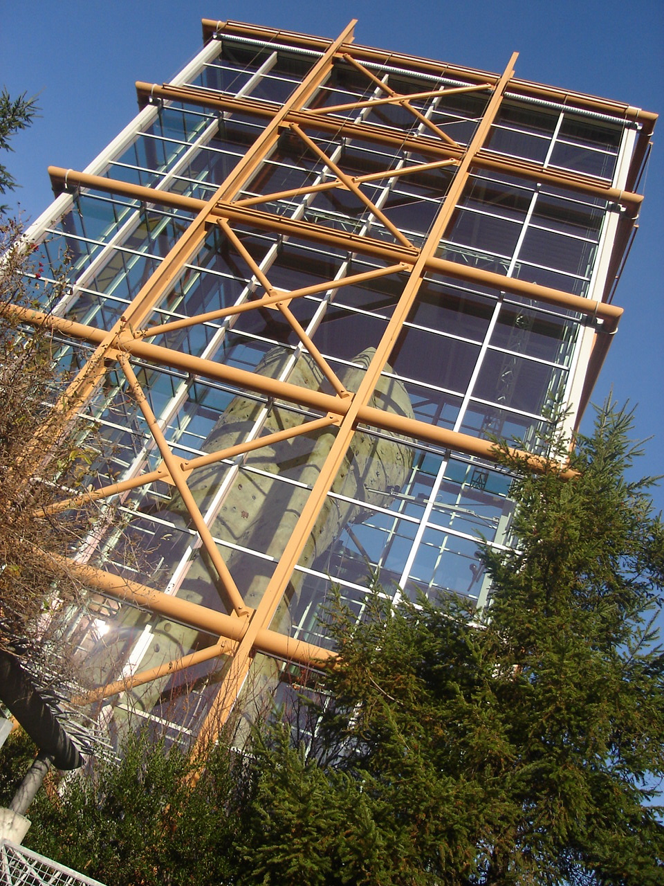 Rock climbing tower, REI Flagship Store designed by Mithun in 1996.